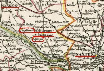 Cordemais and Langle locations (surrounded) on a 1854 map, from public domain, Bibliothèque de Toulouse, cote A-Levasseur (44).